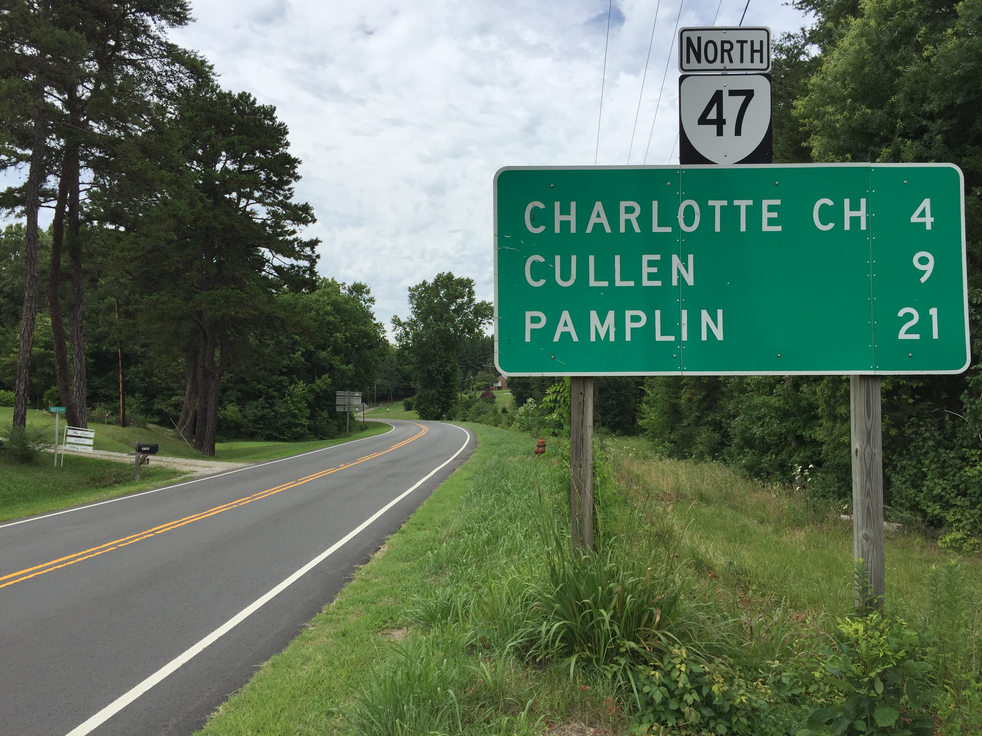 View north along Virginia State Route 47 (Le Grande Avenue) at Gregory Lane in Drakes Branch, Charlotte County, Virginia